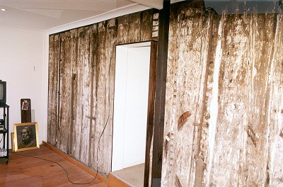 Timber Slab Cottage, Tempe: Interior wall of existing cottage showing original split timber vertical slabs.